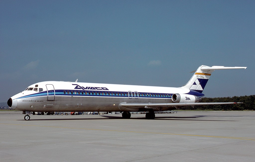 "Vasco Nunez de Balboa"; destroyed in collision with a taking off B727 of Iberia (EC-CFJ) in Madrid Dec 7, 1983 (42 on board k)